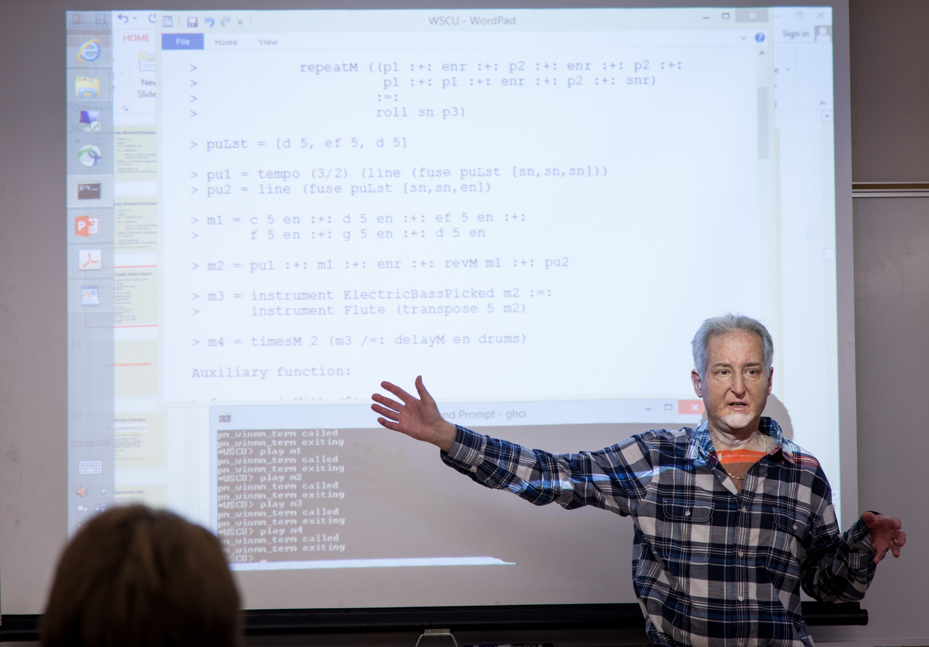 Dr. Paul Hudak explains Teaching Computational Abstractions through Musical Abstractions with his Euterpea language, based on Haskell, in a noontime lecture at Hurst Hall.